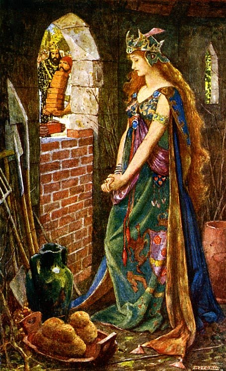 Illustration by H.J. Ford for Andrew Lang's "The Green Fairy Book."Caption (cropped): The Princess Imprisoned in the Summerhouse